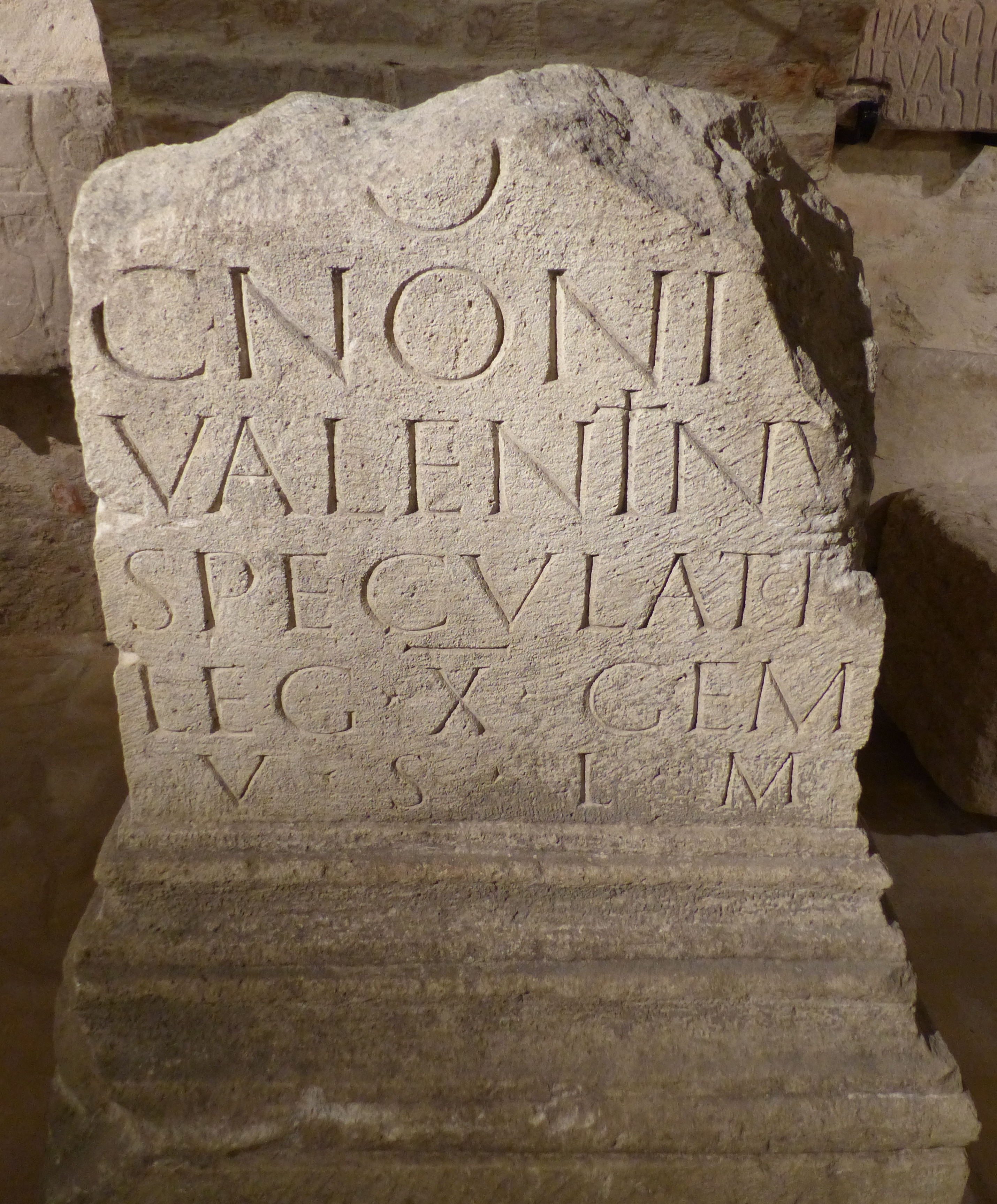 Eisenstadt ( Austria ). Burgenland Country Museum: Votive altar of Caius Nonius Valentinus of legio X Gemina to Iupiter, from Müllendorf ( InvNr. 30140 )